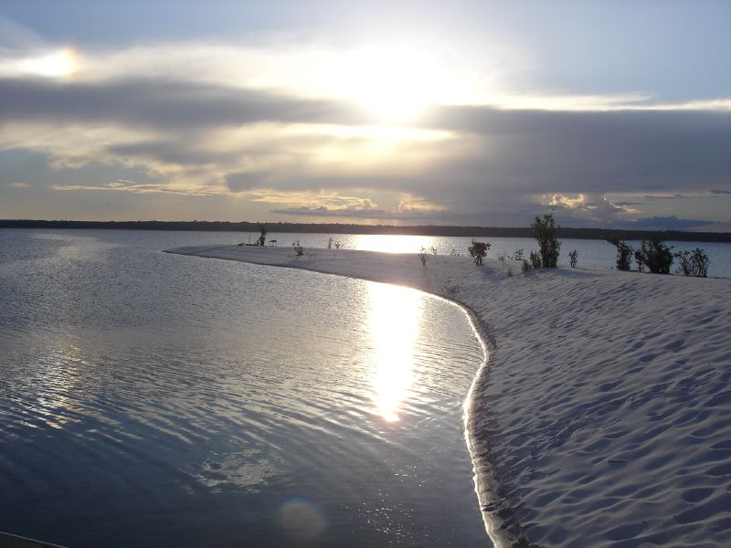 The Pará River is the southern arm of the mouth of the Amazon river in Brazil.